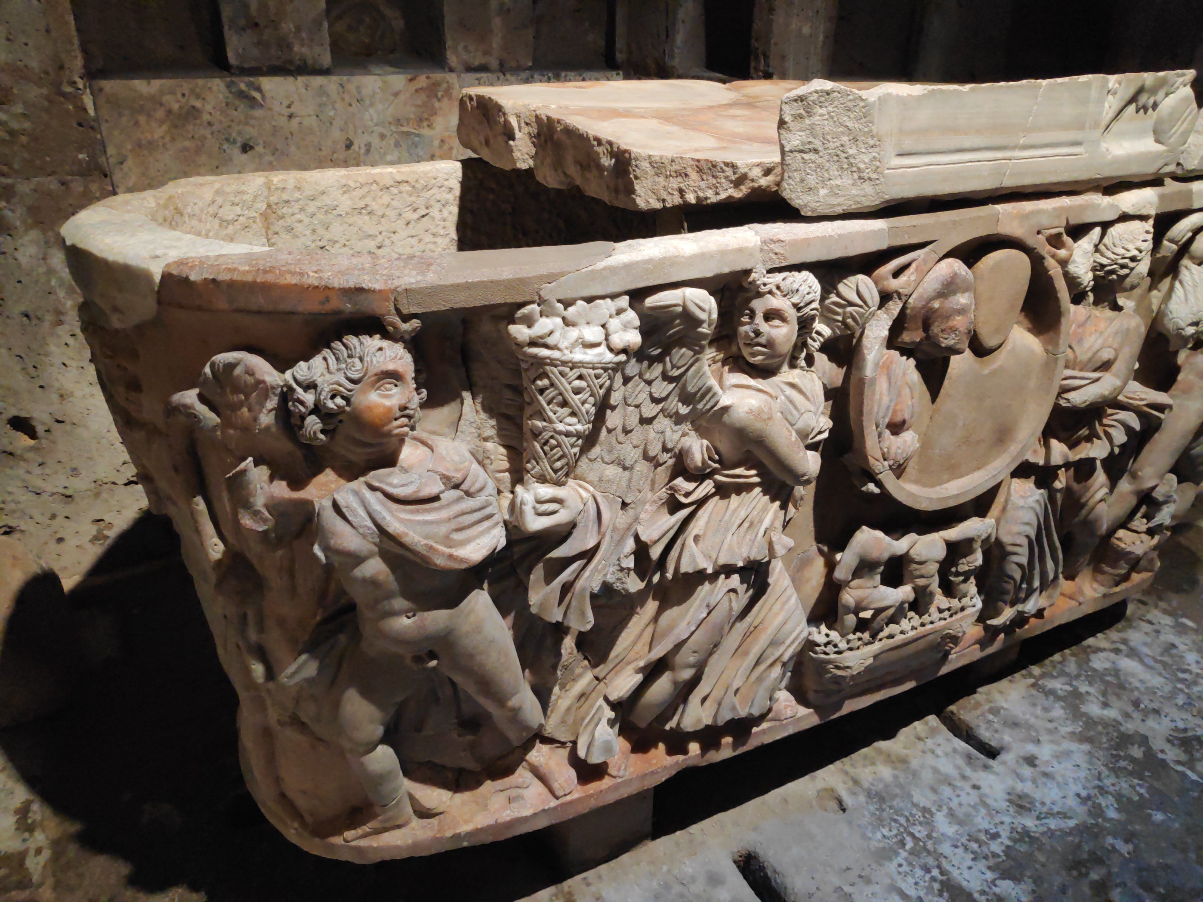 Roman Sarcophagus of the Römergrab Köln-Weiden